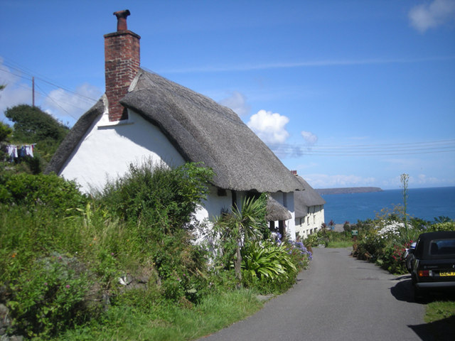 Cottage at Church Cove